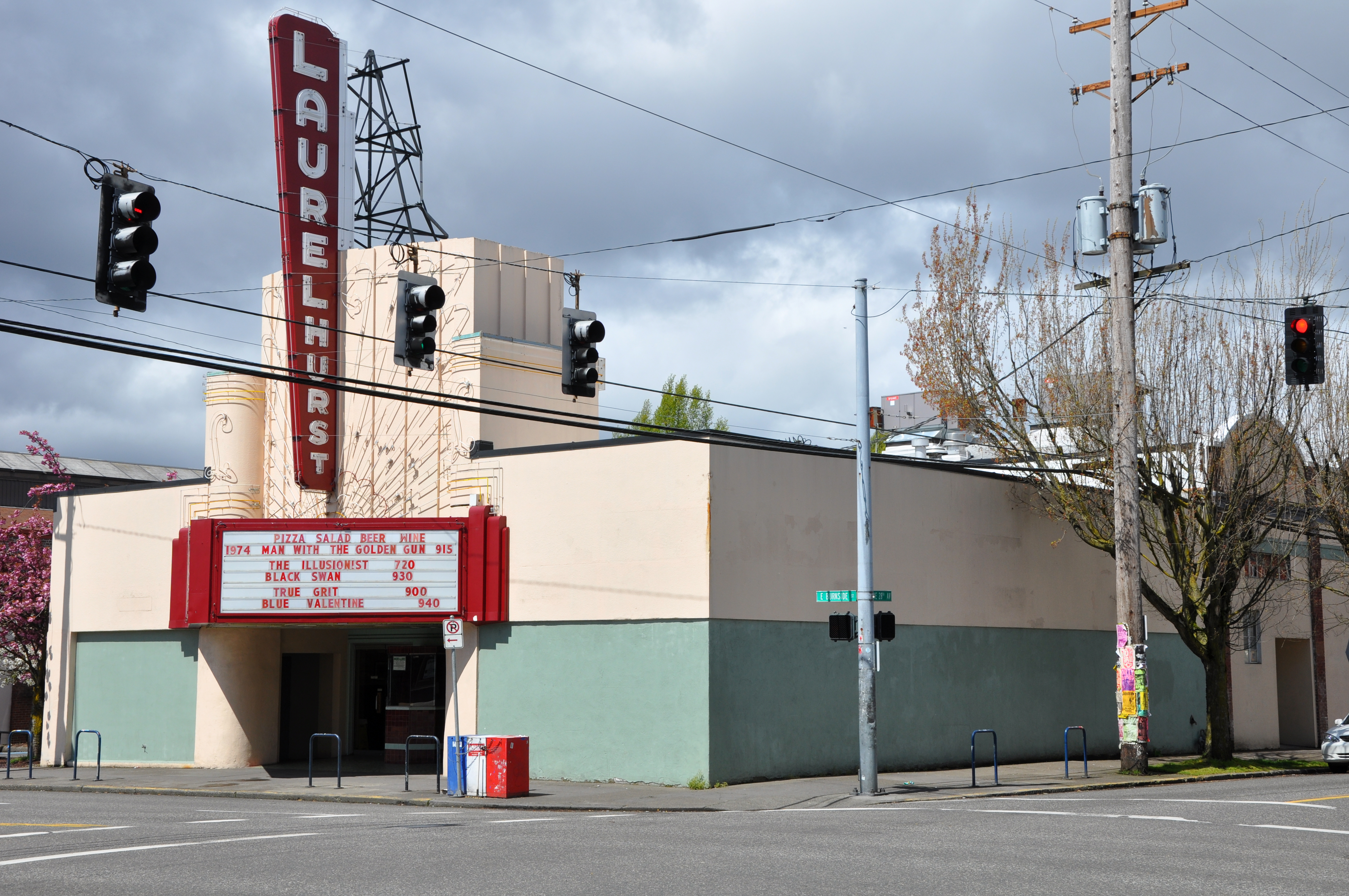 Laurelhurst Theater in Portland in the U.S. state of Oregon